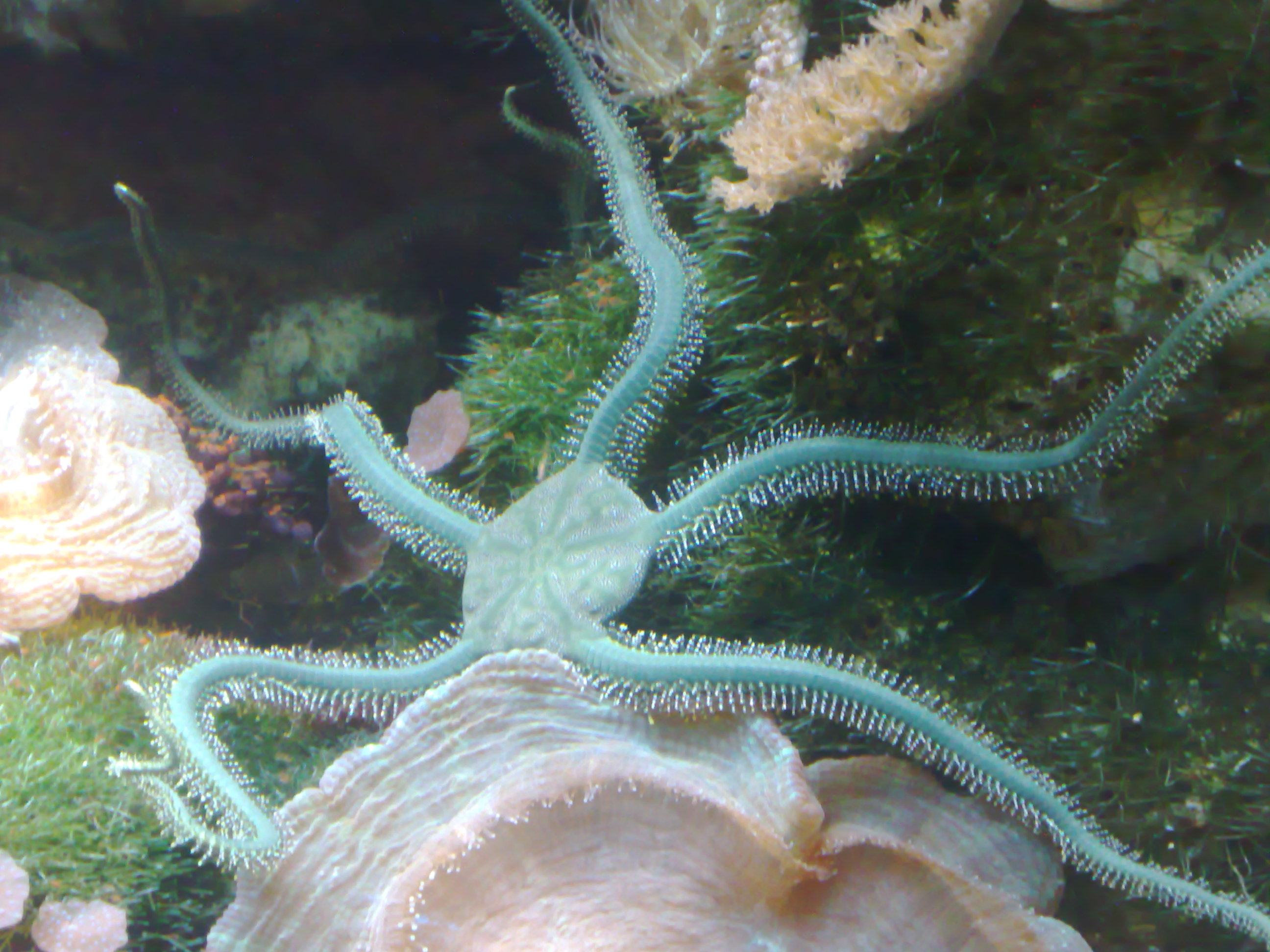 A green brittle star